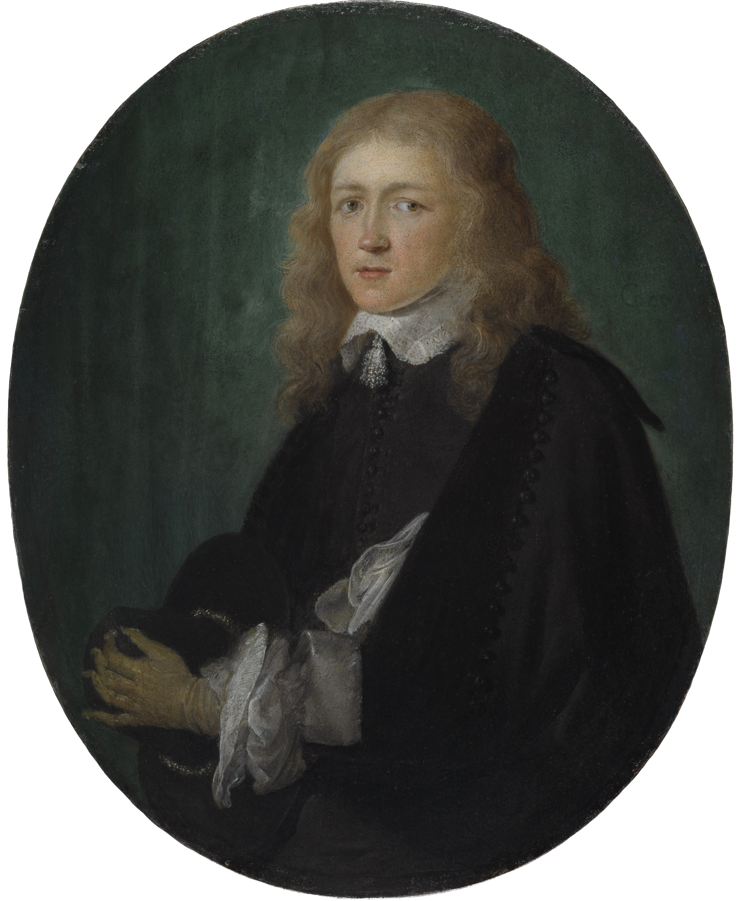 Portrait of Dirck van Beresteyn, Gerard Dou, c. 1652, oil on silver-copper alloy, 10.2 by 8.2 cm (oval), The Leiden Collection